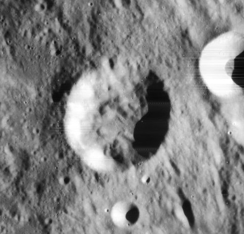 Hind (crater), on the moon.